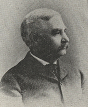 Former United States Representative from New York William J. Coombs.